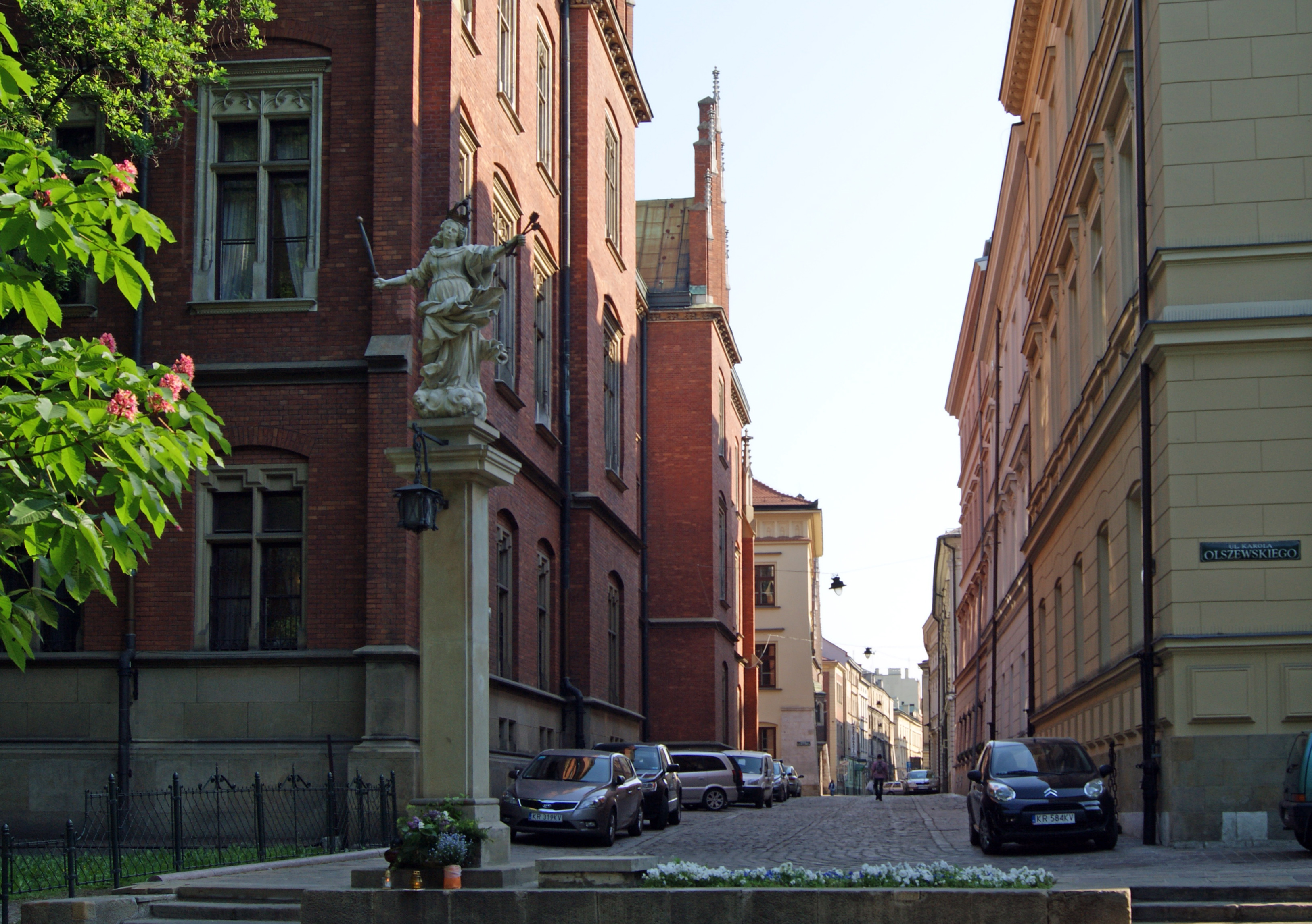 Jagiellonska street, Old Town, Krakow, Poland